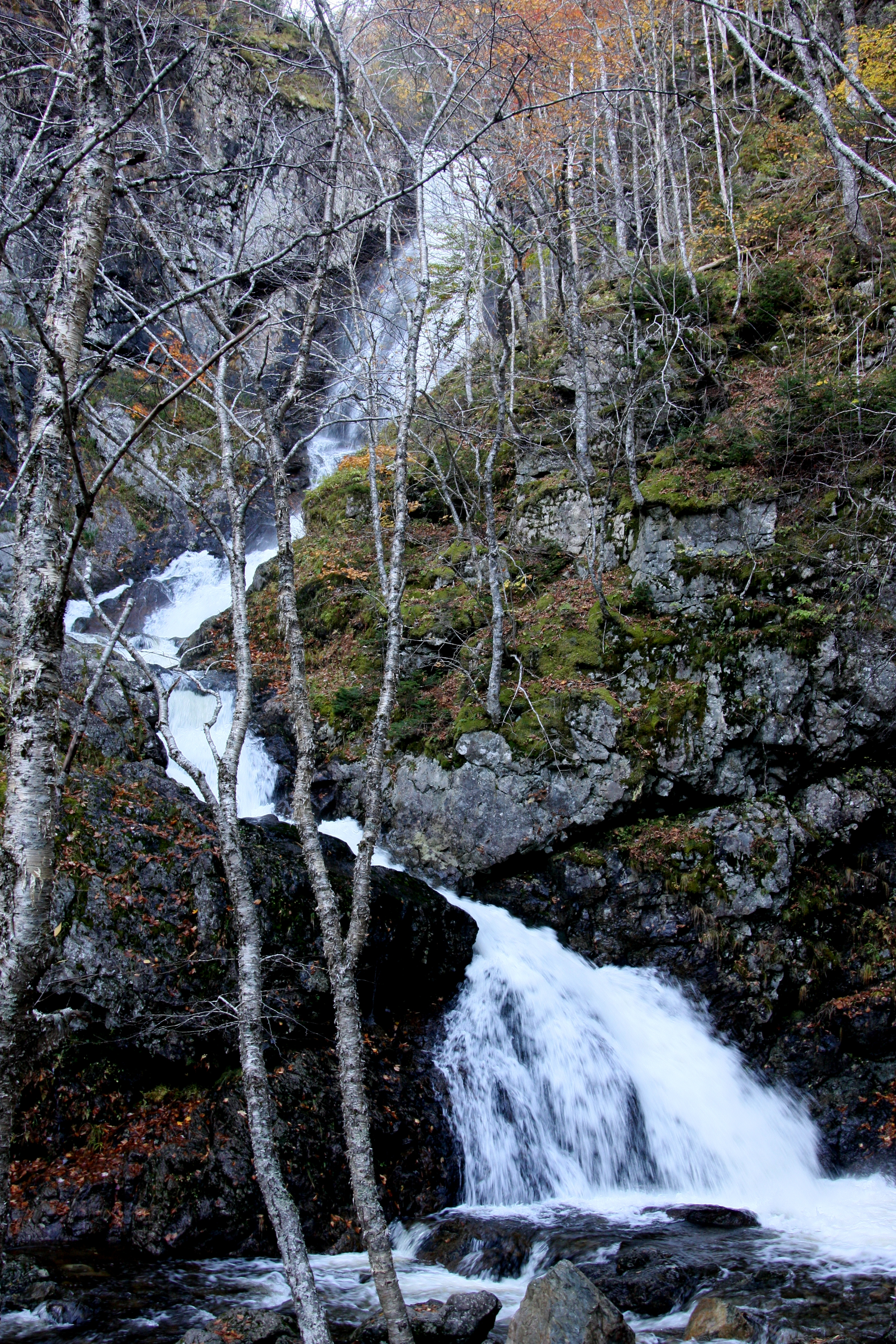 Easach Ban Waterfall (alternative spelling 'Uisge Ban Falls', 'Uisage Ban') is a waterfall near New Glen, Nova Scotia, Canada.